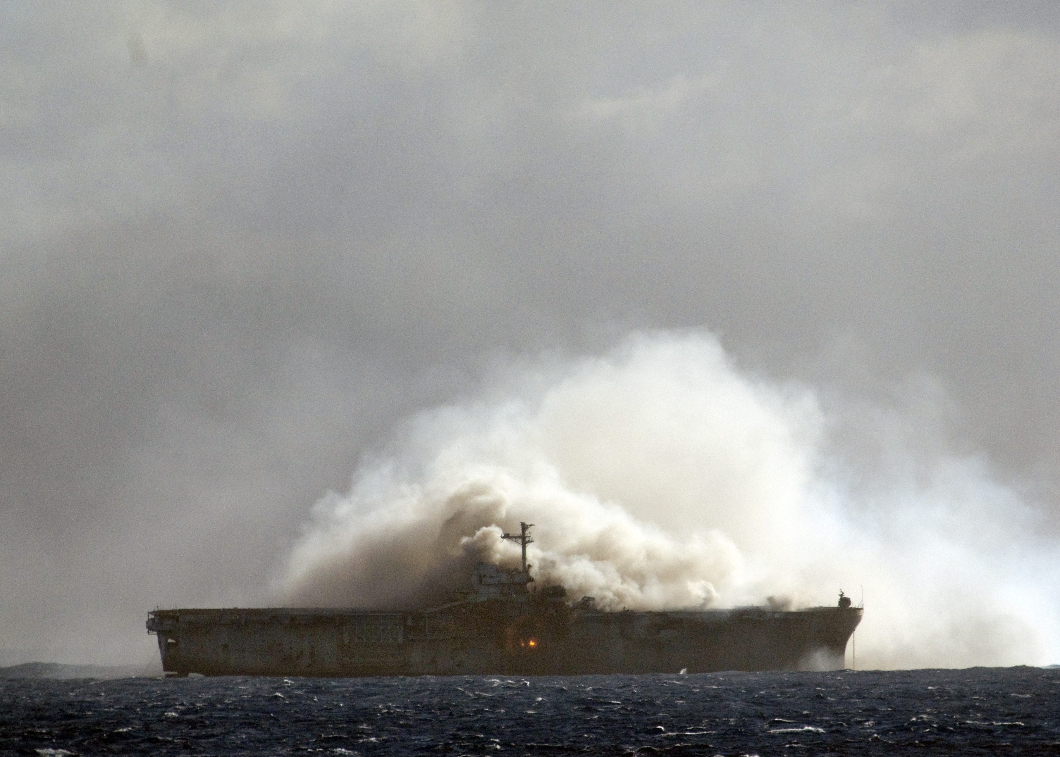 PACIFIC OCEAN (July 10, 2010) The ex-USS New Orleans (LPH 11) takes fire from a line of surface combat ships from four countries during a sinking exercise as part of Rim of the Pacific (RIMPAC) 2010. RIMPAC is a biennial, multinational exercise designed to strengthen regional partnerships and improve multinational interoperability. (U.S. Navy photo by Mass Communication Specialist 1st Class Woody Paschall/Released)